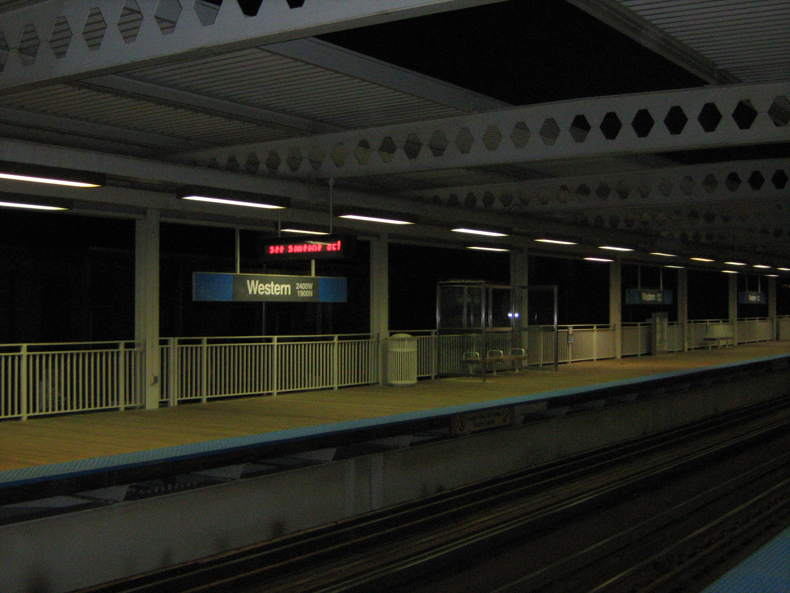 Western Avenue, Cortland Street and Milwaukee Avenue (2400 W/1900 N) 1900 N. Western Ave Chicago, IL 60647 Blue Line (O'Hare Branch)